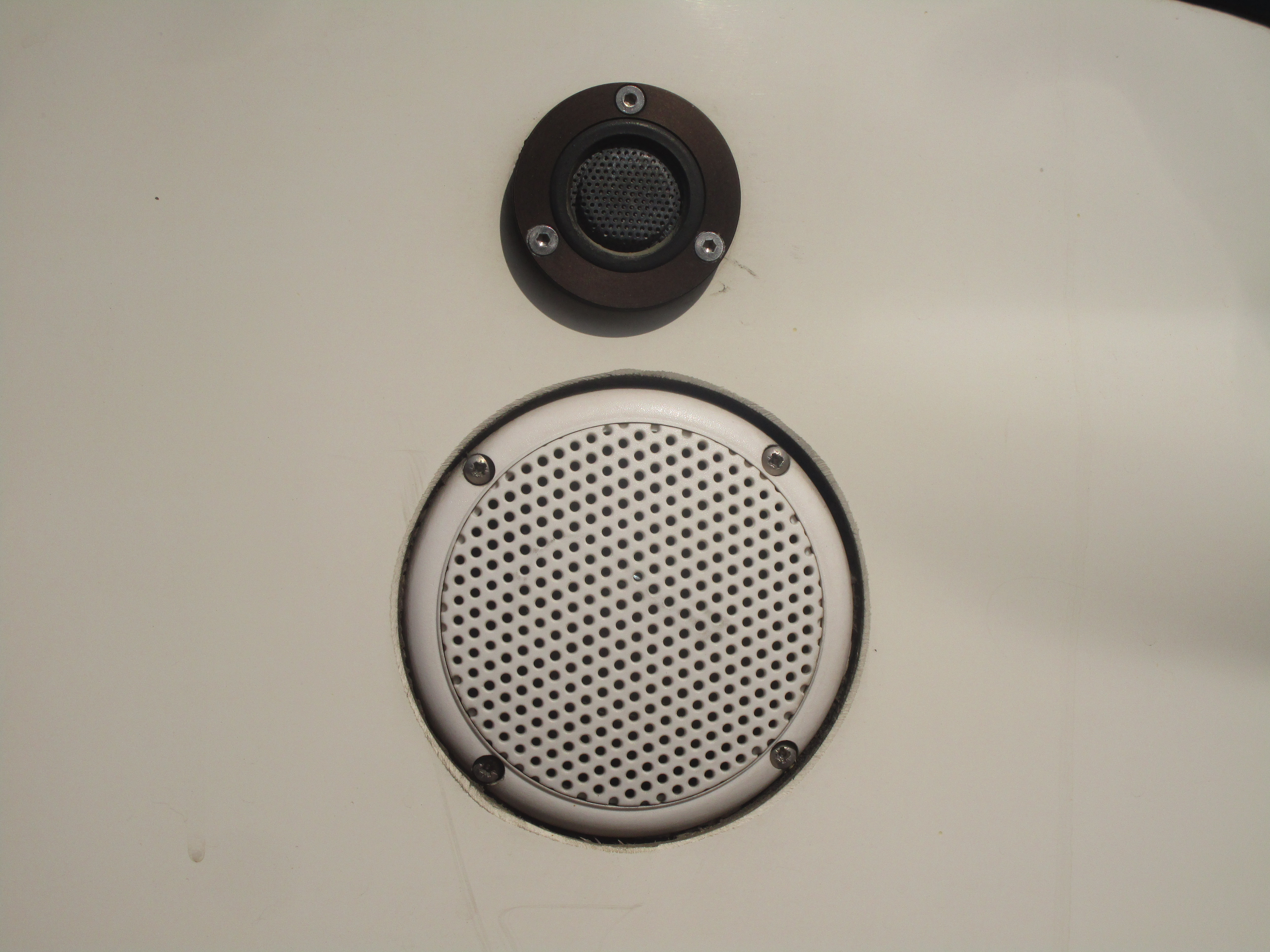 The outside loudspeaker of an Heuliez GX 137L (n°4112 of the French agglomeration community Chambéry Métropole - Cœur des Bauges).